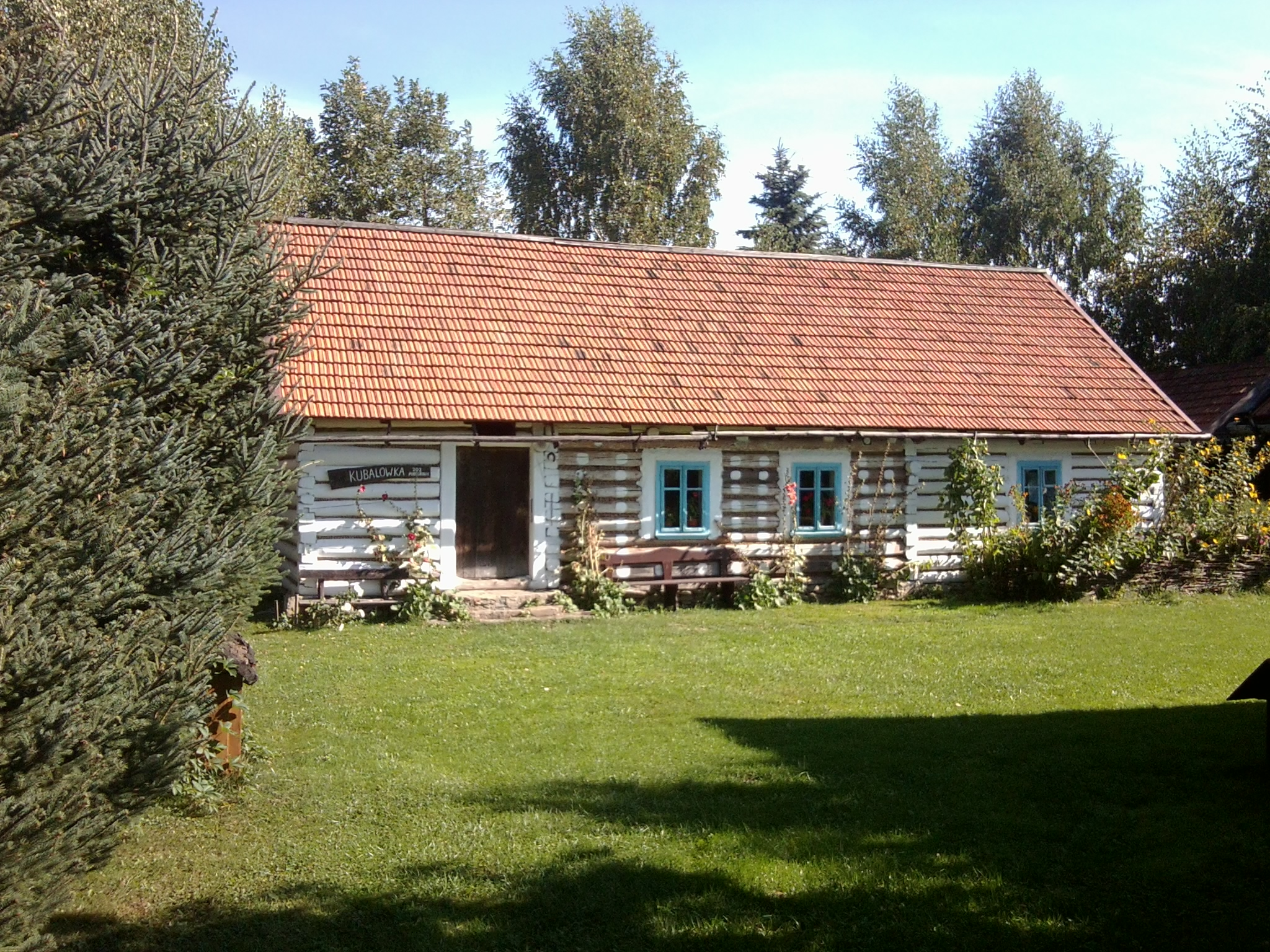 Traditional Farm of The Lach of Sącz Ethnic Group "Kubalówka" in Podegrodzie (Lesser Poland Voivodeship)